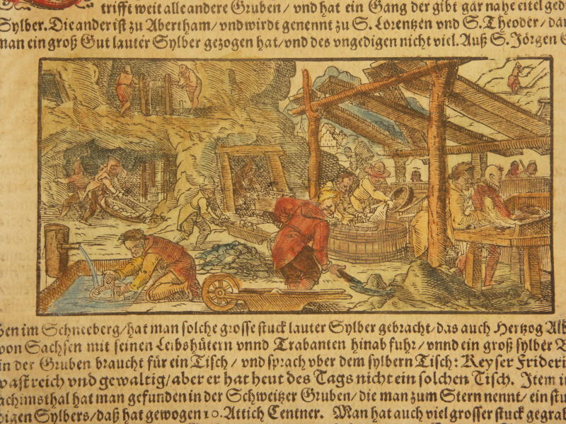 Sebastian Münster (1488-1552) was a German cartographer, cosmographer, and Hebrew scholar whose Cosmographia (1544; "Cosmography") was the earliest German description of the world and a major work in the revival of geographic thought in 16th-century Europe. Altogether, about 40 editions of the Cosmographia appeared between 1544 and 1628; Münster was a major influence on his subject for over 200 years. Münster acquired the material for his book in three ways. He used all available literary sources. He tried to obtain original manuscript material for description of the countryside and of villages and towns. Finally, he obtained further material on his travels (primarily in south-west Germany, Switzerland, and Alsace). Cosmographia not only contained the latest maps and views of many well-known cities, but also included an encyclopaedic amount of detail about the known -- and unknown -- world, and was undoubtedly one of the most widely read books of its time. Aside from the well-known maps present in the Cosmographia, the text is thickly sprinkled with vigorous views: portraits of kings and princes, costumes and occupations, habits and customs, flora and fauna, monsters, wonders, and horrors.